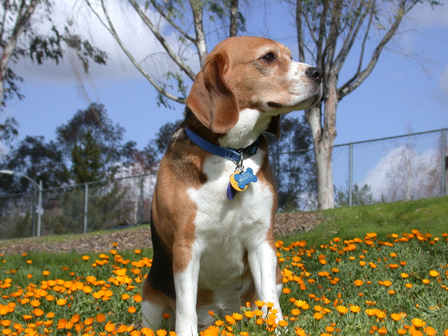 This is a female purebred beagle of the tricolor variety. This beagle is 6-years old and the photo was taken at Almaden Park in San Jose, California, USA.